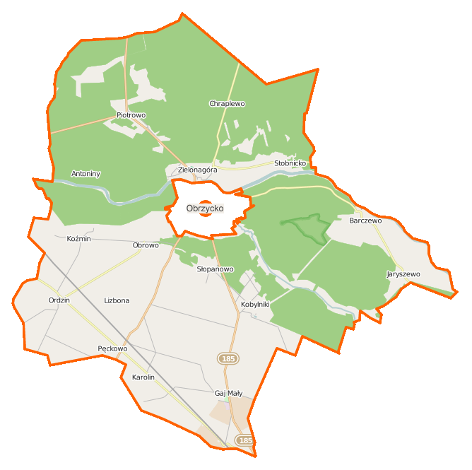 Map of Gmina Obrzycko, PolandThis map of Obrzycko (gmina wiejska) was created from OpenStreetMap project data, collected by the community. This map may be incomplete, and may contain errors. Don't rely solely on it for navigation.